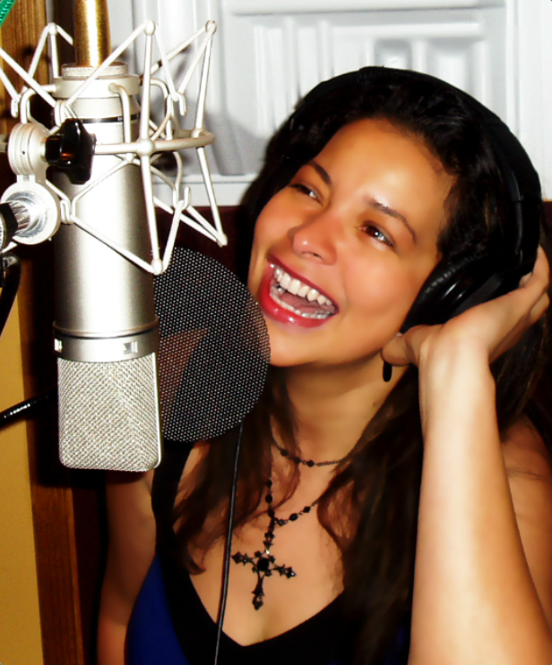 Portrait of MioSotis in a recording session.